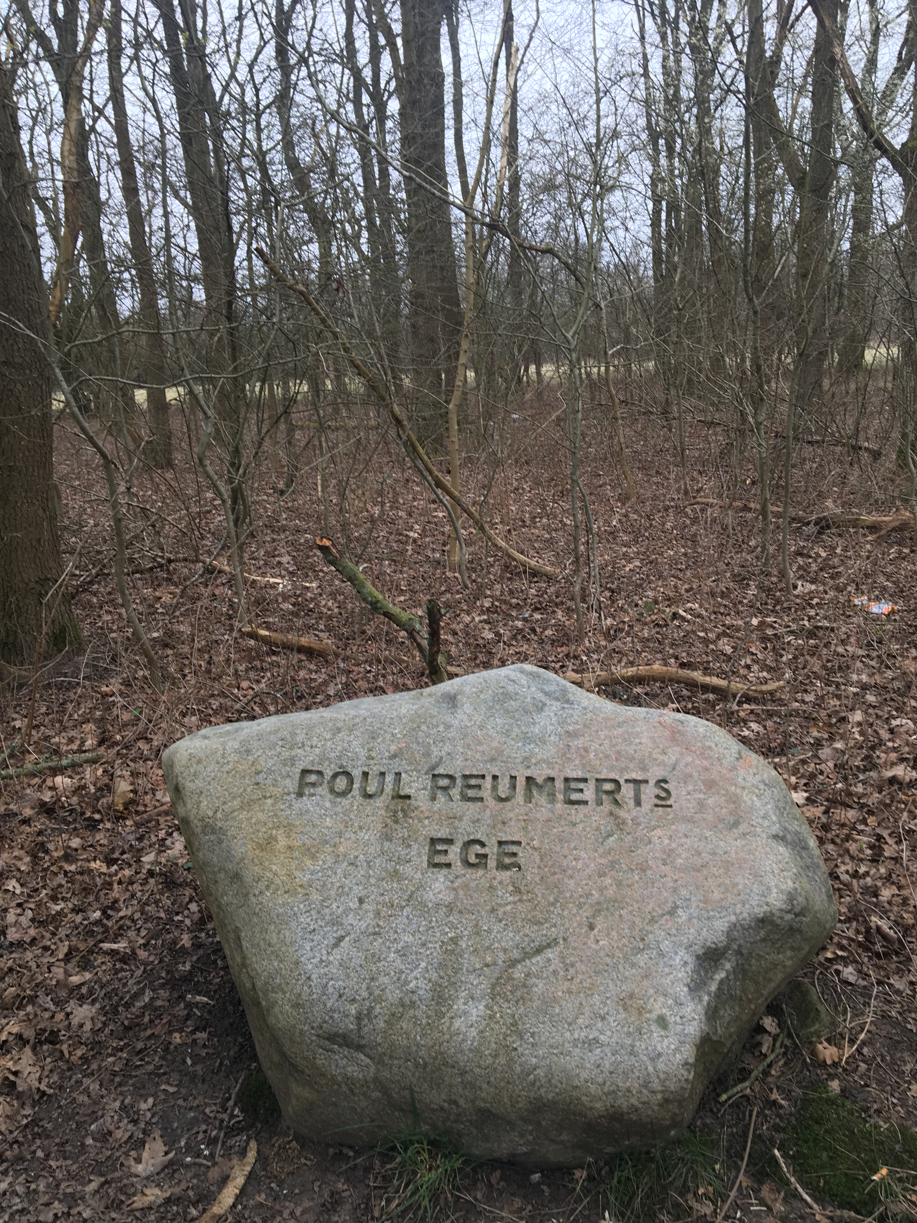 memorial rock located in the group of trees known as Poul Reumert's Ege (oaks)